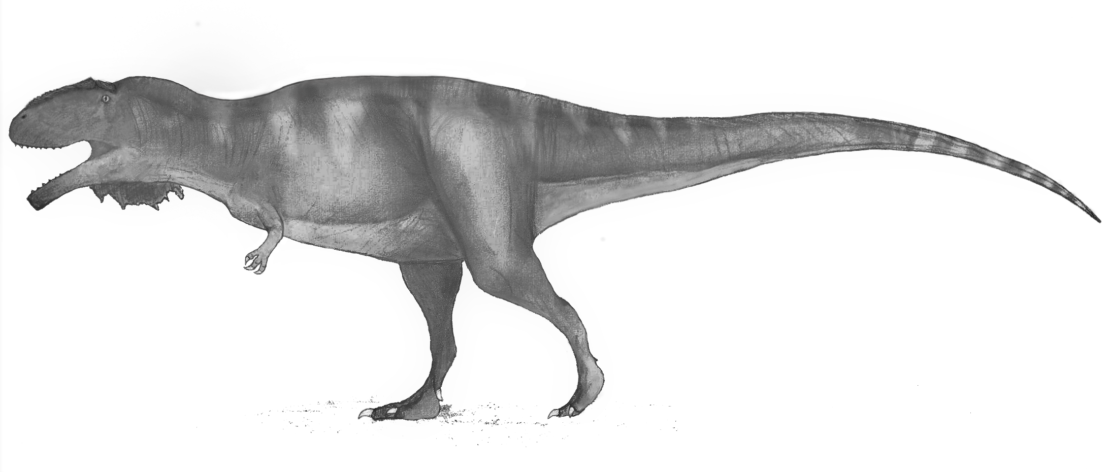 Mapusaurus Roseae restoration Based on skeletal by Franoys:link